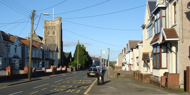 A4240 Alexandra Road, Gorseinon The church is St Catherine's church.